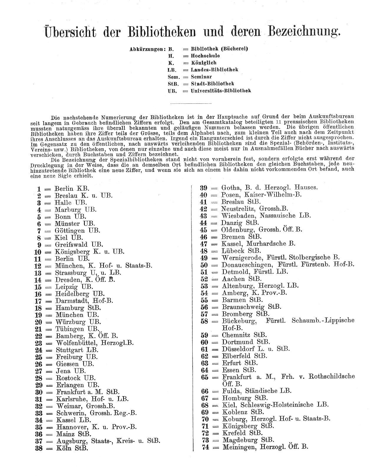 List of Libraries from 1914, precursor of the German Sigelverzeichnis (see also image:Sigelverzeichnis1929.png)